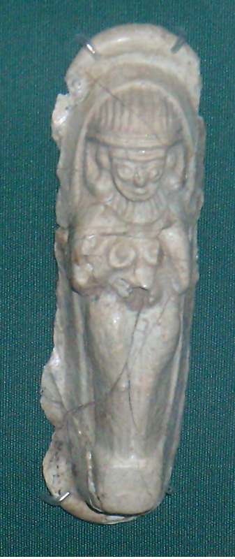 Godess, glass, Alalakh, level VI, British Museum WA130076